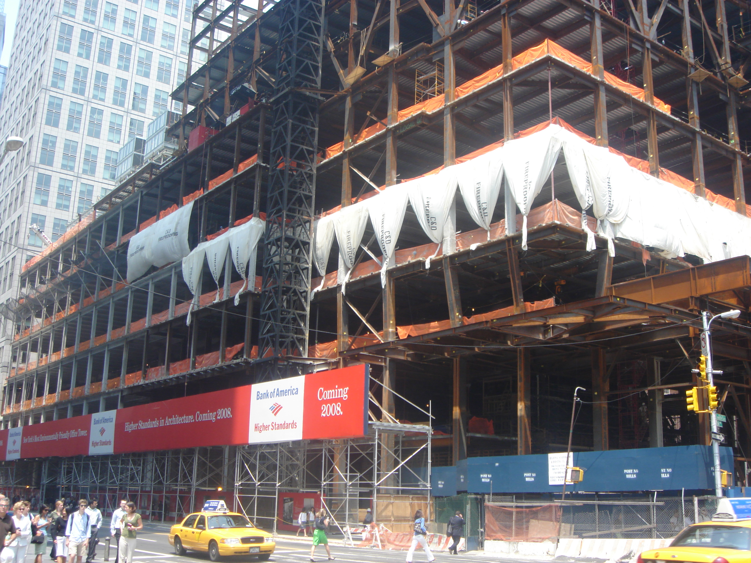 Bank of America Tower construction site on Sixth Avenue, New York City. Photo taken by User:Jaxl on 10 July 2006.